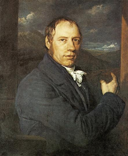 Painting of Richard Trevithick, the engineer, by John Linnell